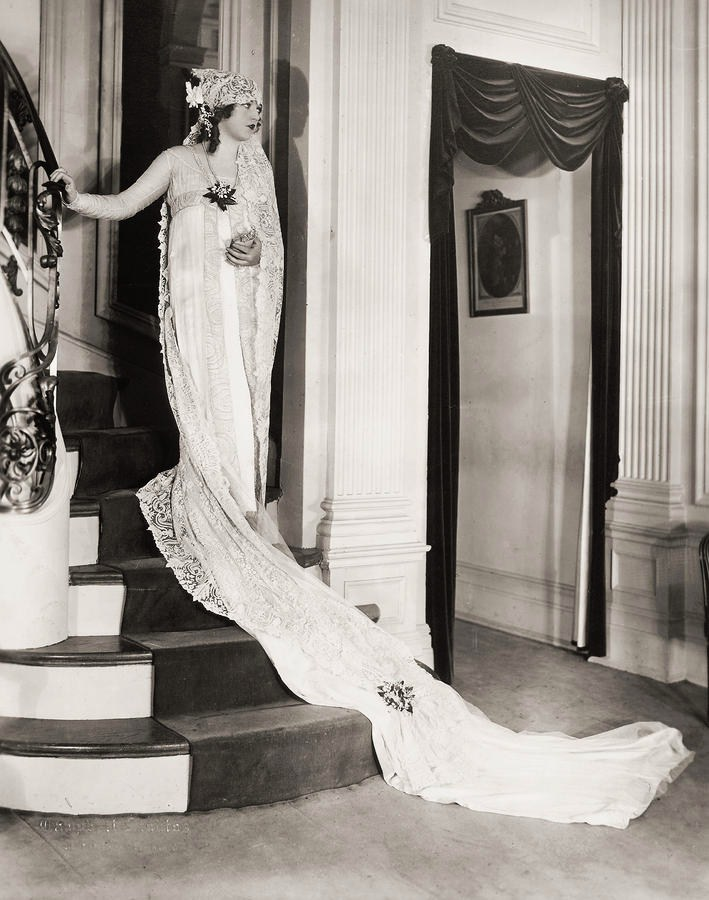 Marion Davies in the film Bride's Play (1922) - cropped screenshot